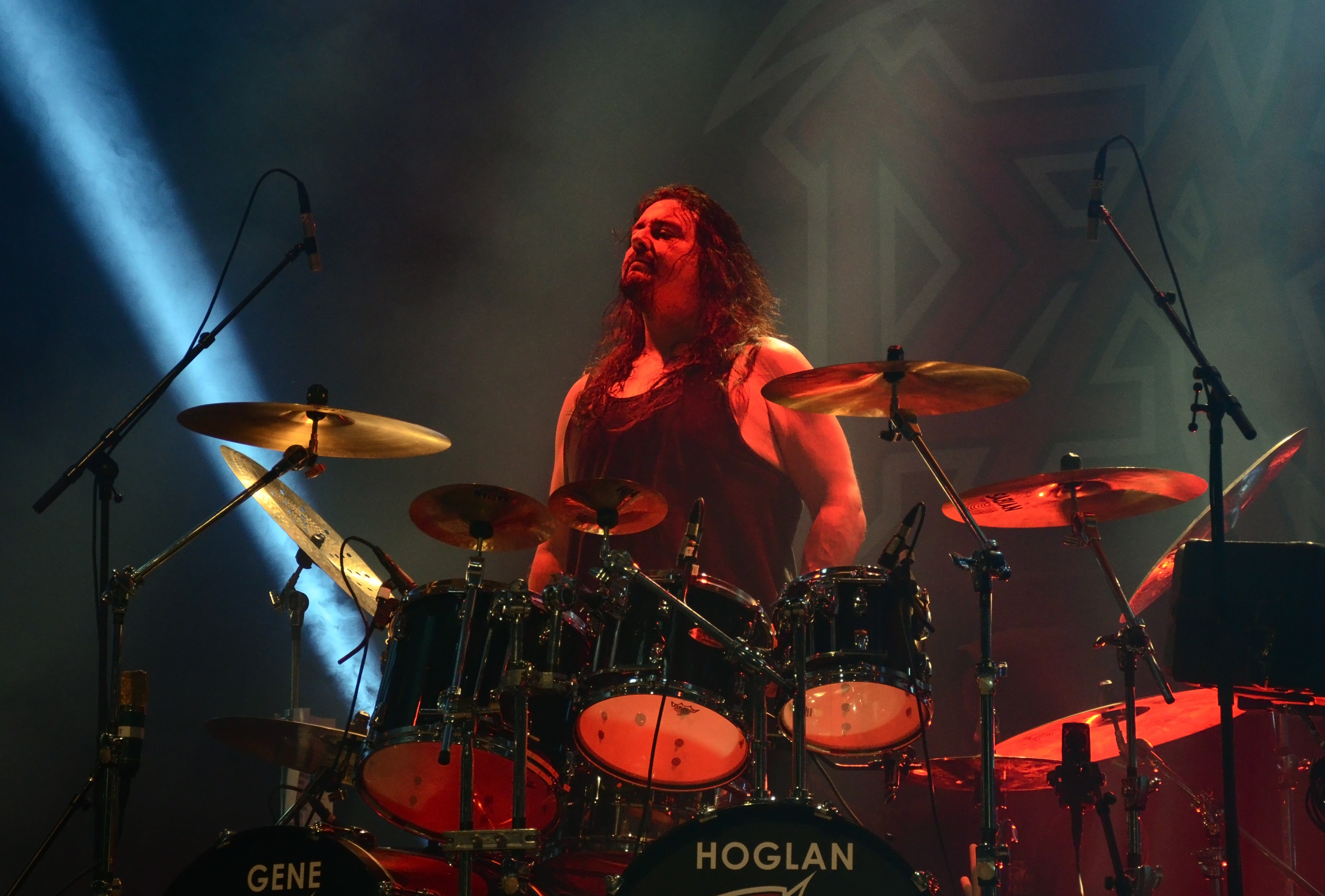 Gene Hoglan, the drummer of Death (DTA), performing at the Motocultor Festival, in Saint-Nolff ( France ), the 15th of August 2015.